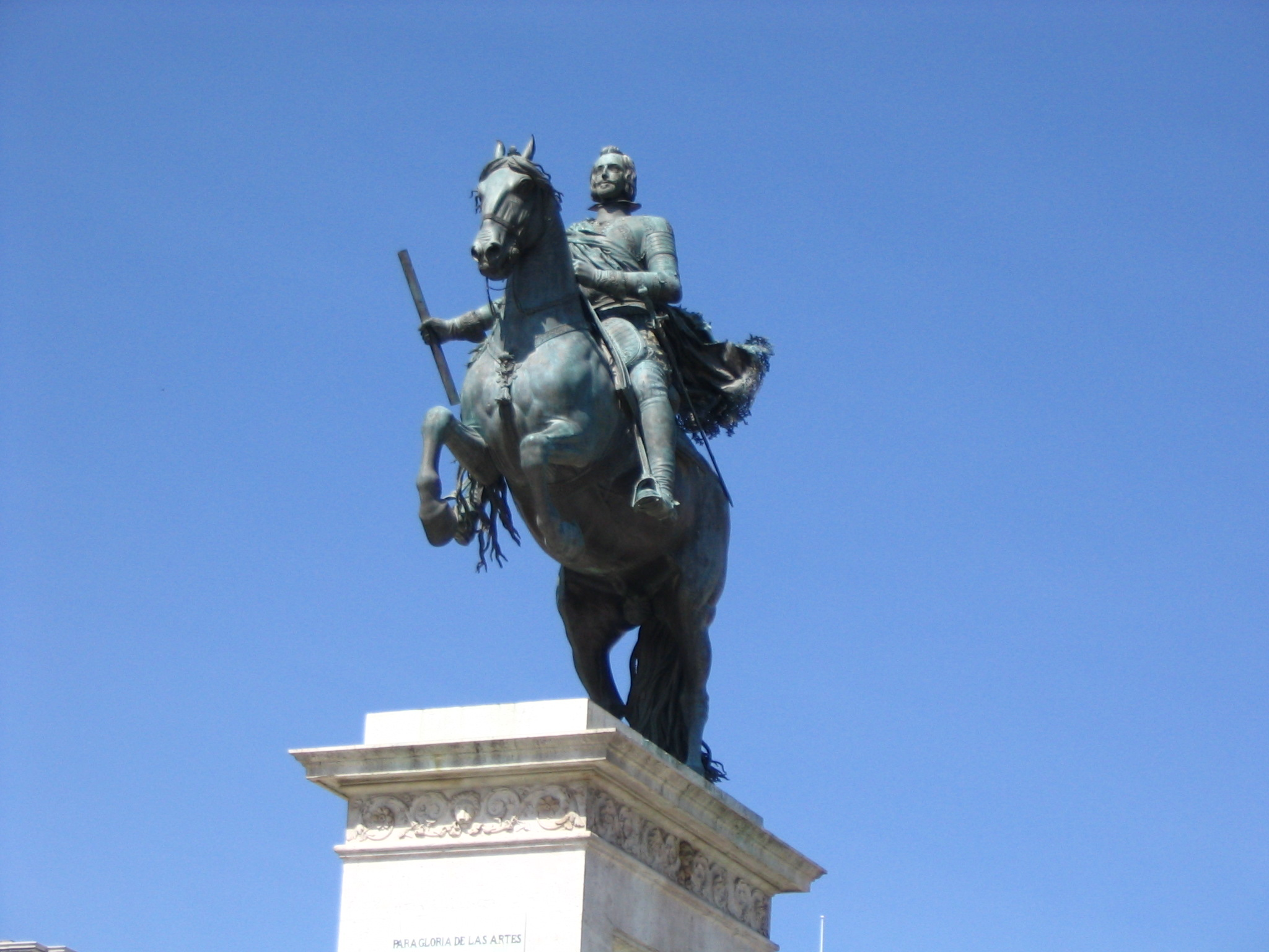 Bronze equestrian statue of Philip IV of Spain (1605–1665). Made by Pietro Tacca (1577–1640) between 1634 and 1640. It´s part of the monument in the Plaza de Oriente in Madrid (Spain) inaugurated in 1843.